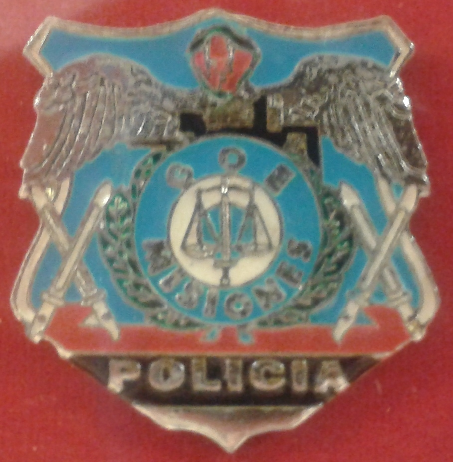 Shield of GOE (Grupo de Operaciones Especiales/Special Operations Group) the special police operations of Misiones (Argentina), based on the following sources